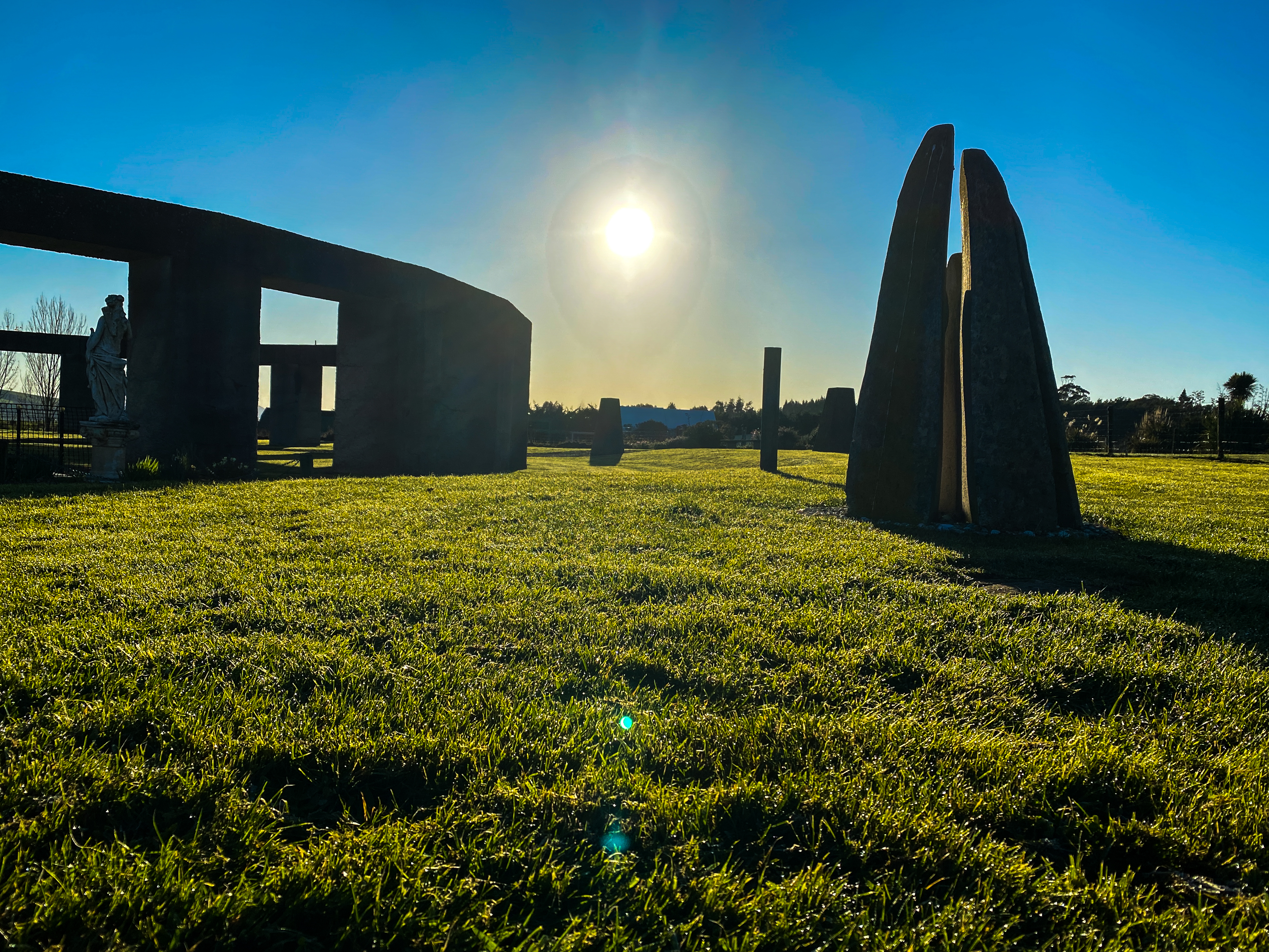 From these stones you can watch the heliacal rising of Matariki around winter solstice.